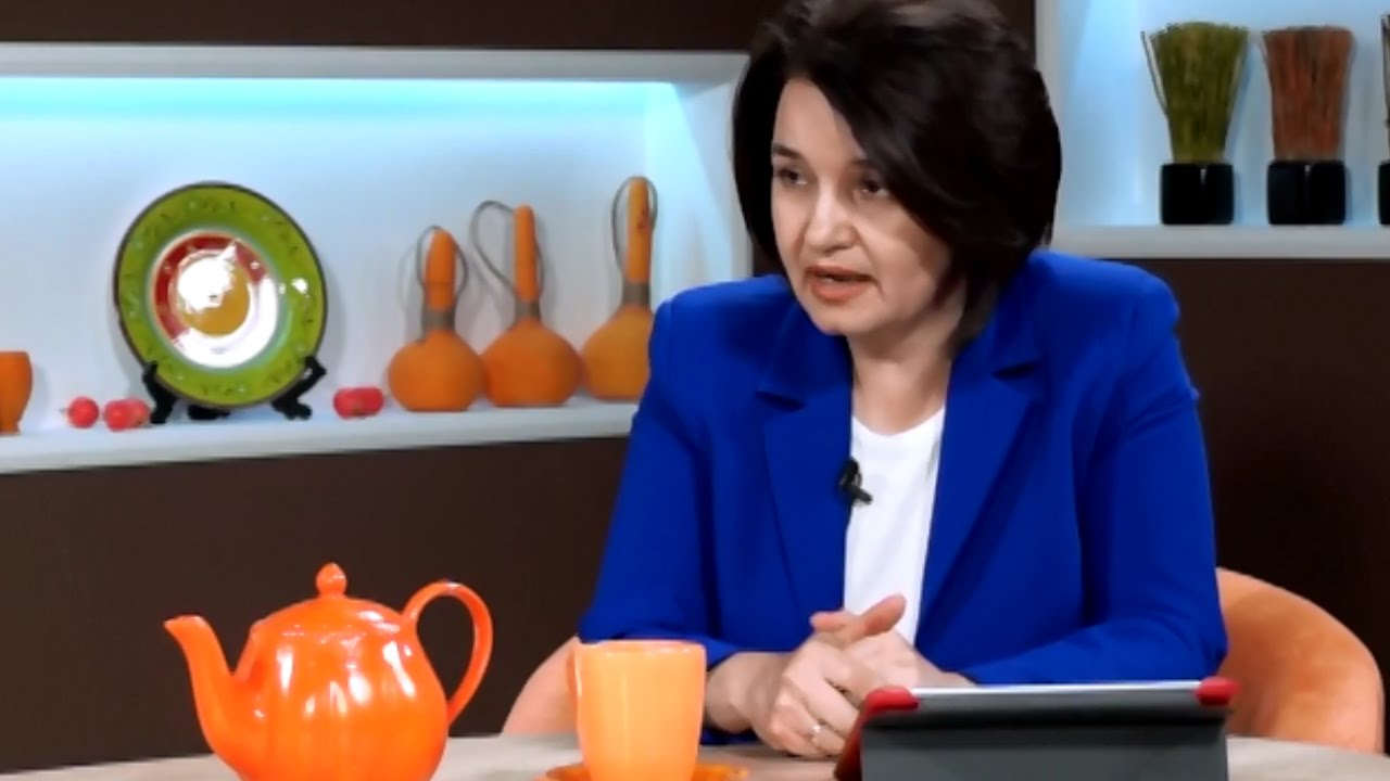 Moldovan politician Monica Babuc